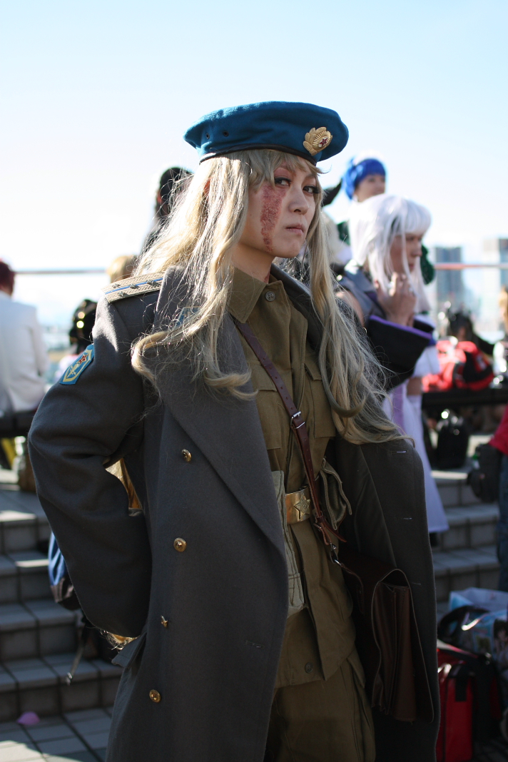 Balalaika cosplayer at C77.